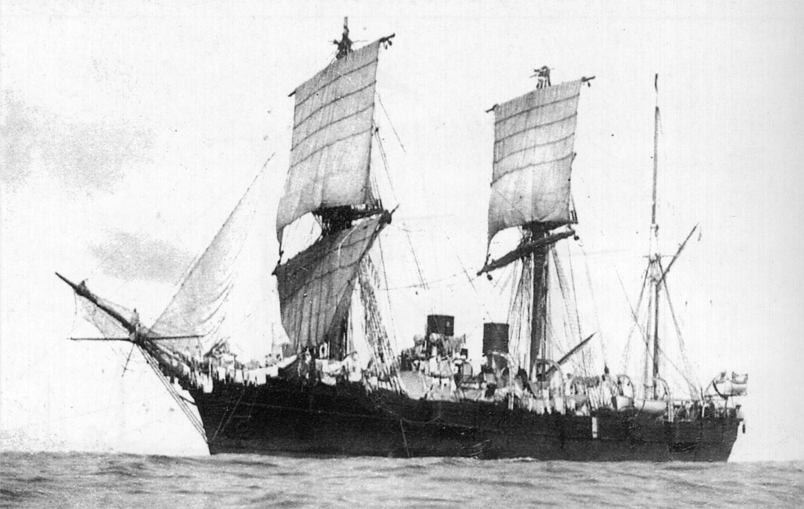 Imperial Russian cruiser Vityaz'.